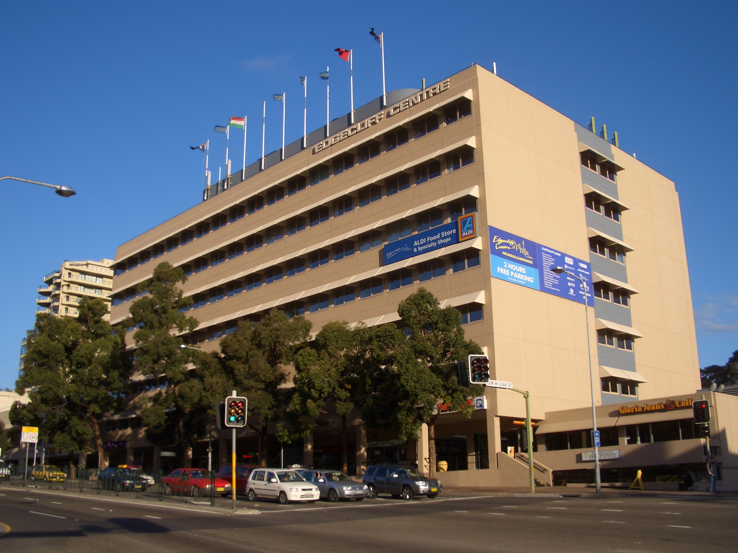 Edgecliff Centre, New South Head Road